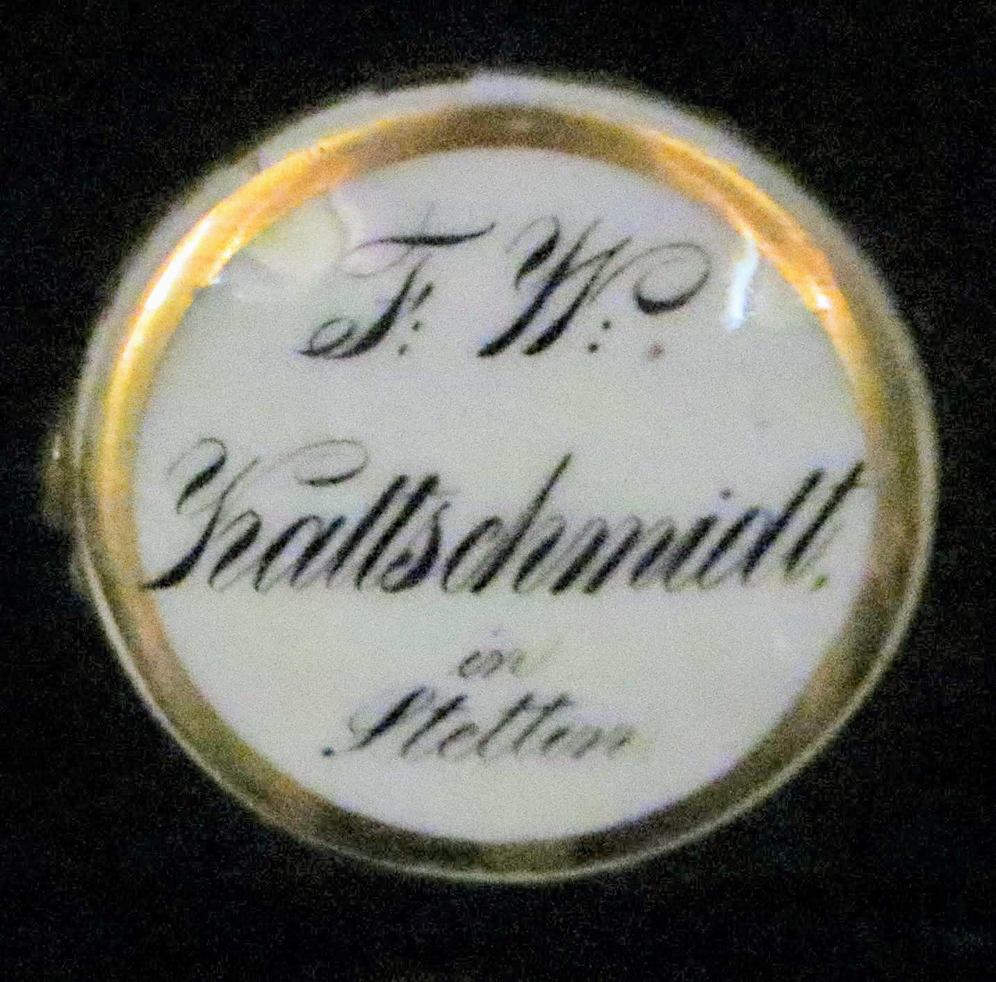 Church in Ducherow